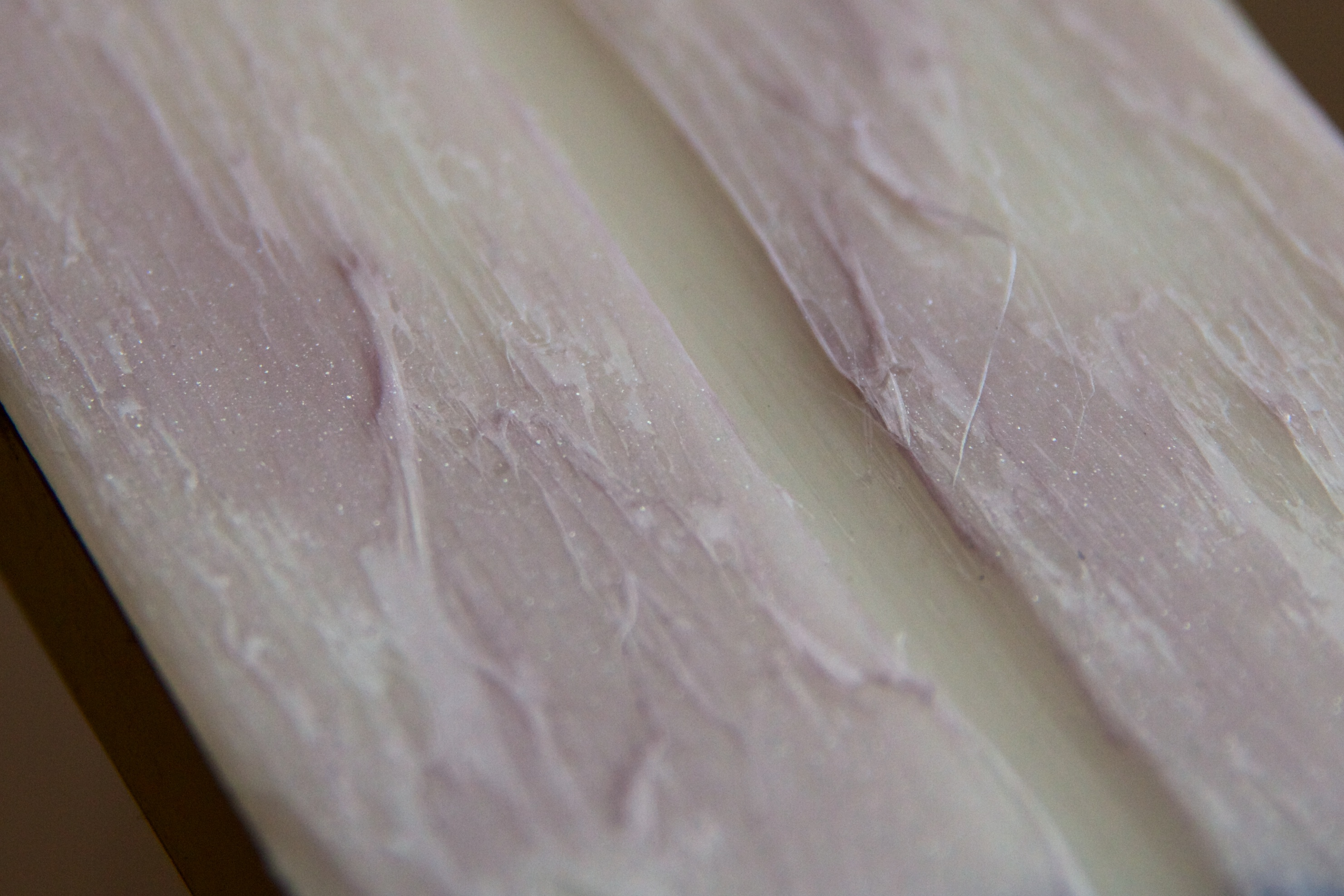 Grip wax